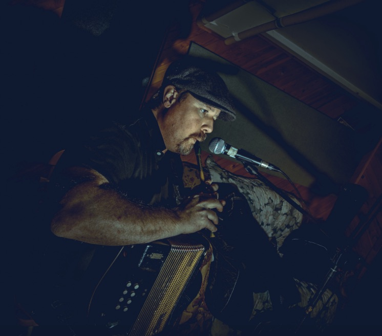 Bob Hallett playing music.